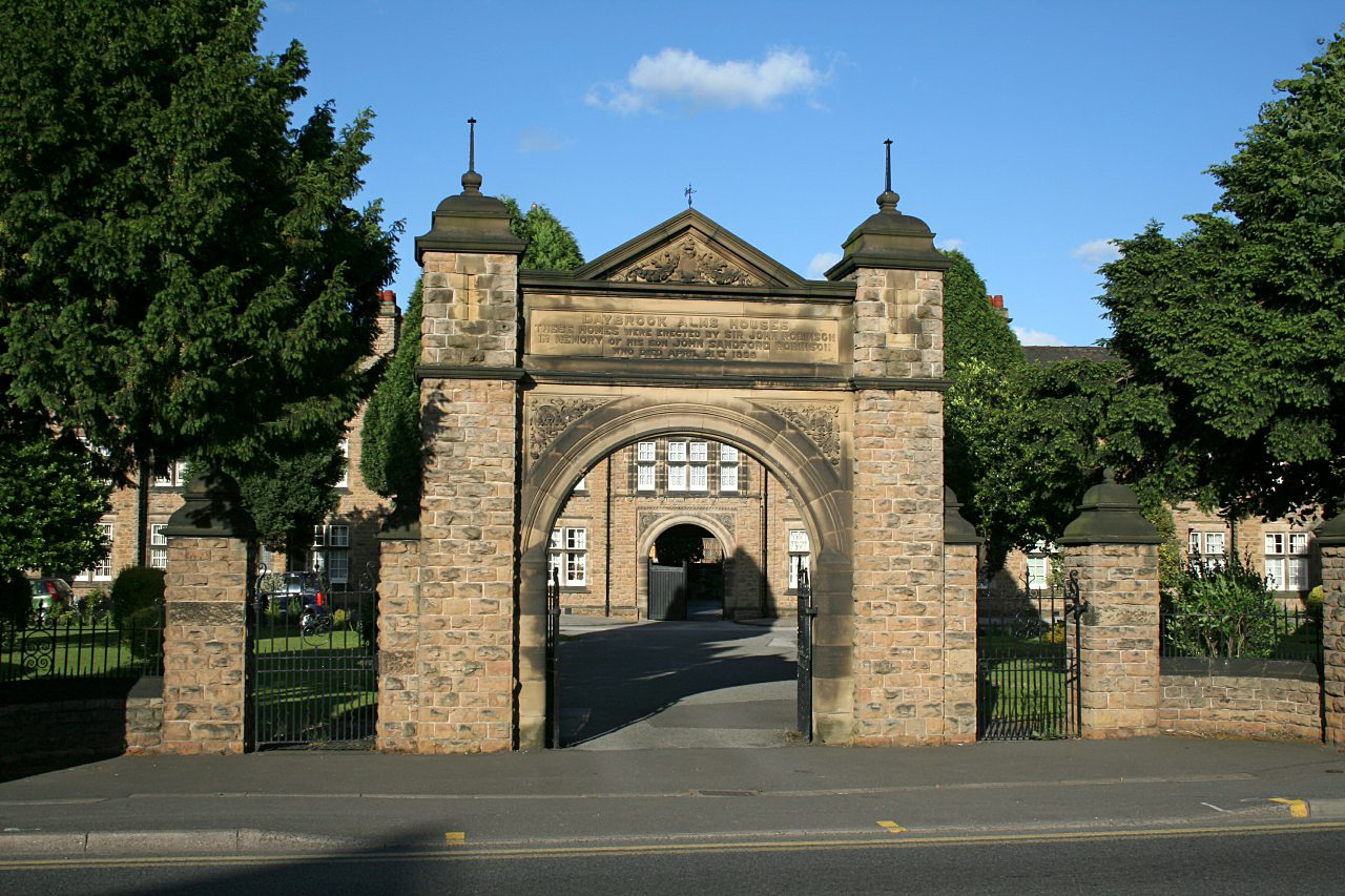 Daybrook Alms Houses Erected by Sir John Robinson in memory of his son John Stanford Robinson who died April 21st 1896